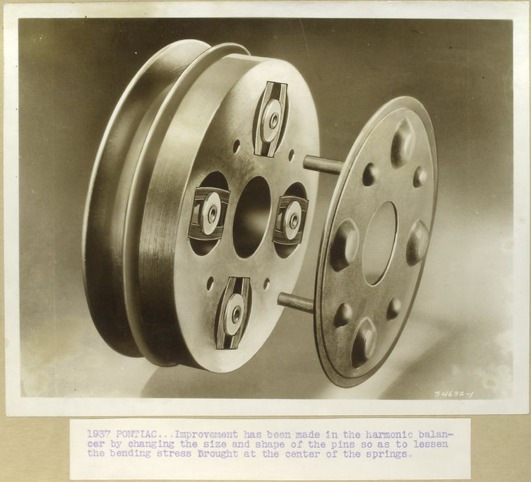 Digital ID: 481838 Source: Photographs of General Motors and Chrysler car and truck models, 1902 - 1938. / General Motors Company. Chevrolet - Pontiac 1912-1938 Photographs. ( Repository: The New York Public Library. Science, Industry and Business Library. General Collection Division. See more information about and others at Persistent URL: Rights Info: No known copyright restrictions; may be subject to third party rights (for more information